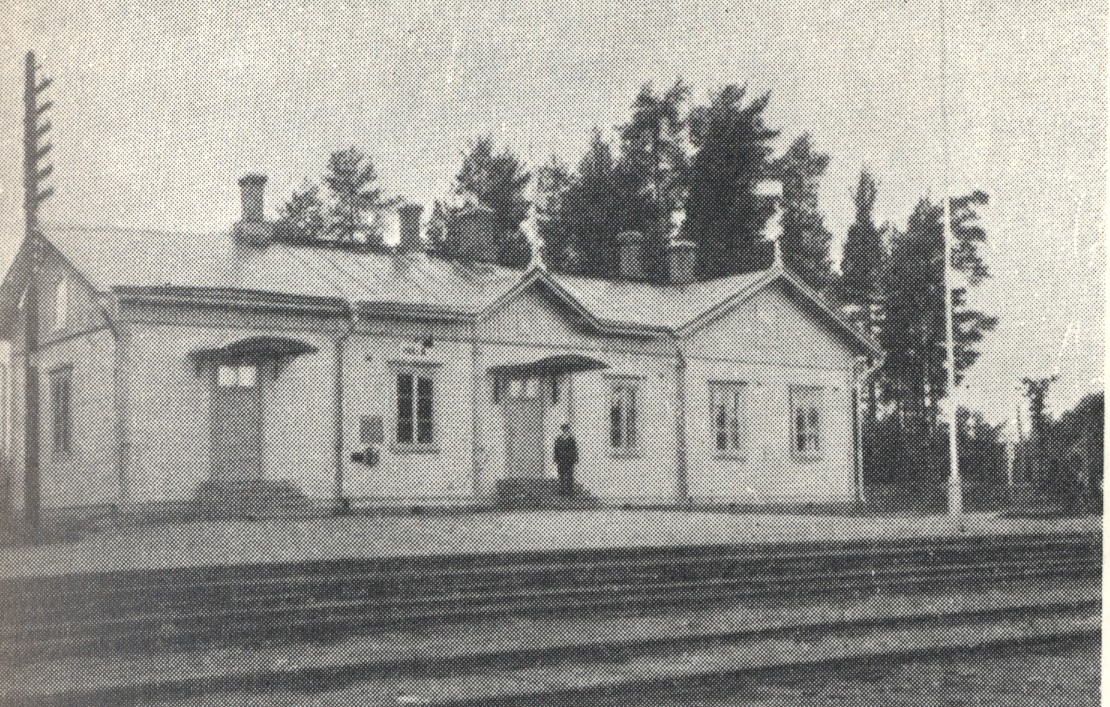 (now-demolished) train station in Ihala (formerly in Lumivaara municipality, Finland; now in Miinala municipality, Lakhdenpokhsky District, Republic of Karelia, Russia)